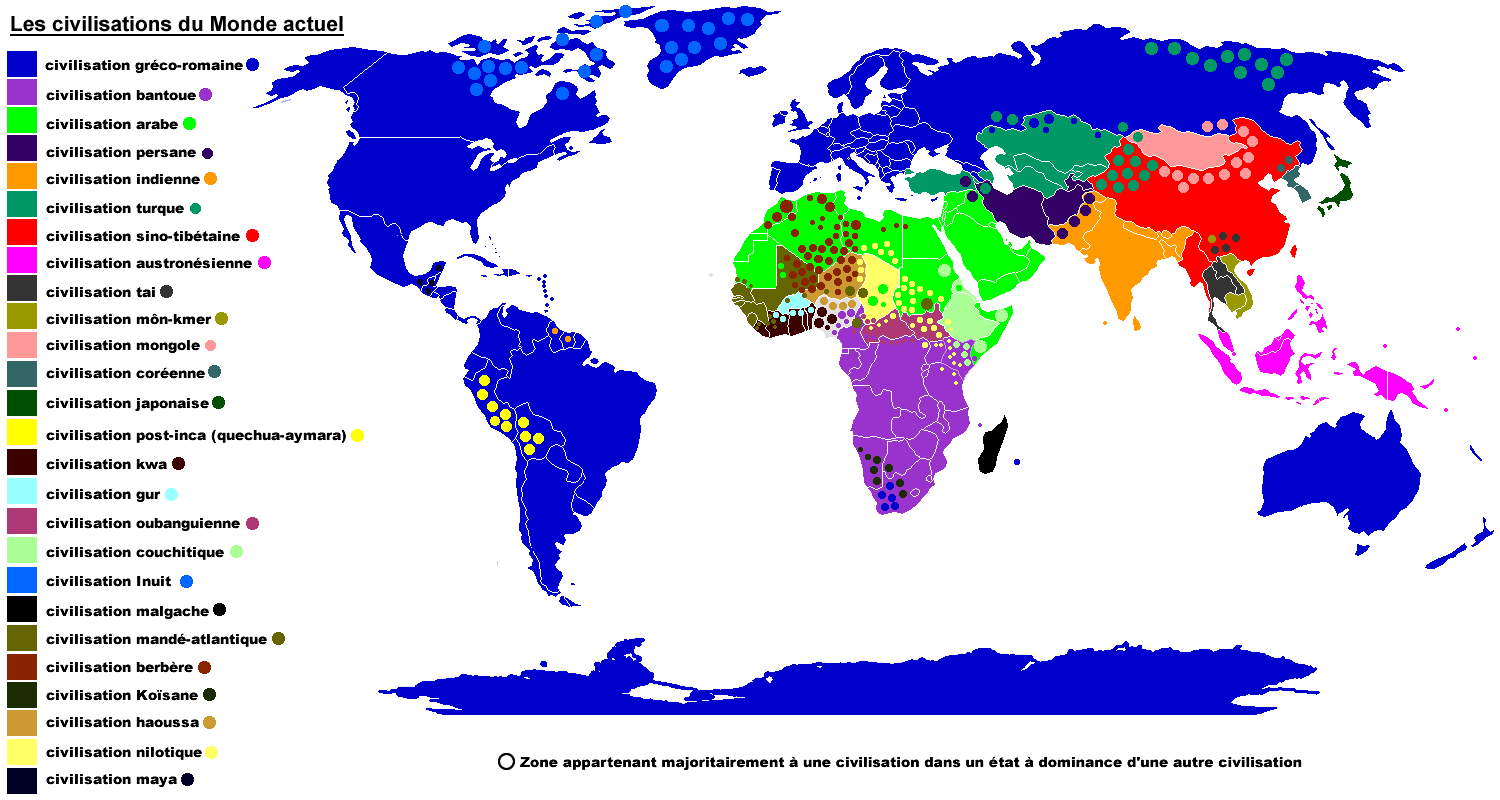 World's civilisations nowadays. At the Iranian point of view.